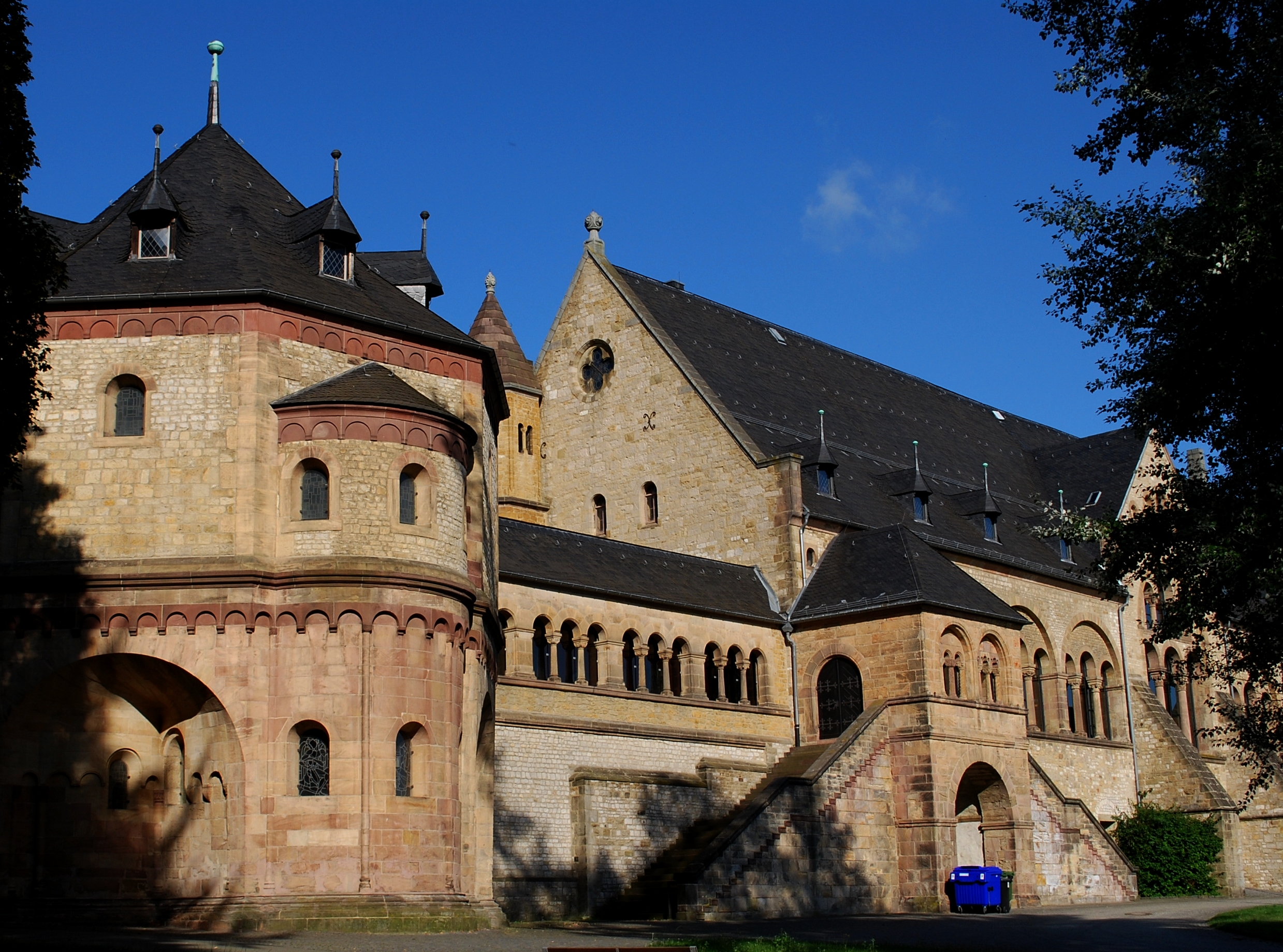 Kaiserpfalz Goslar, St. Ulrich Chapel, Lower Saxony, Germany.